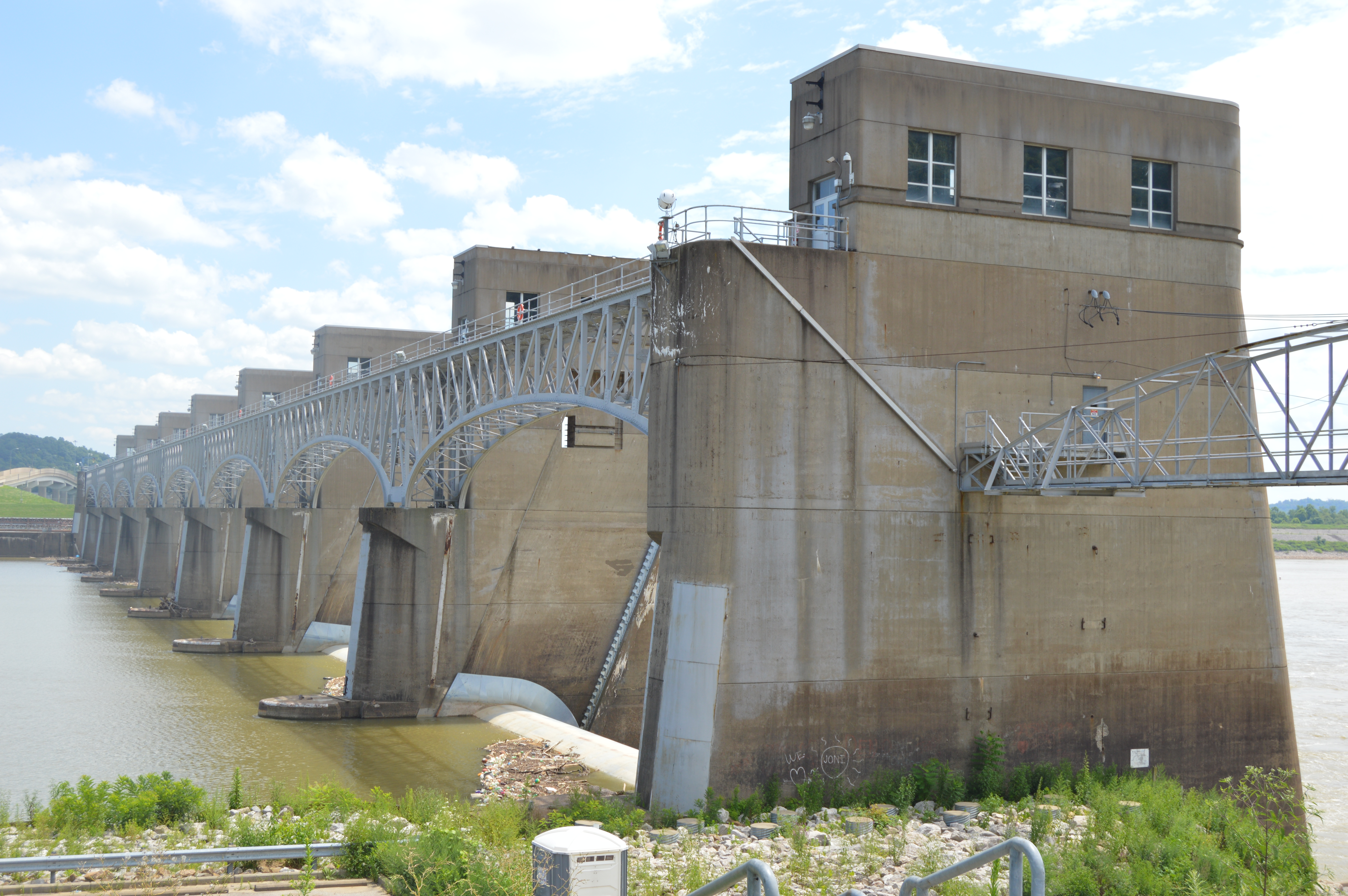 Overview of the northern side of the Gallipolis Locks and Dam on the Ohio River, seen from the western end along State Route 7 in Clay Township, Gallia County, Ohio, United States. The other shore and most of the river are located in Mason County, West Virginia.